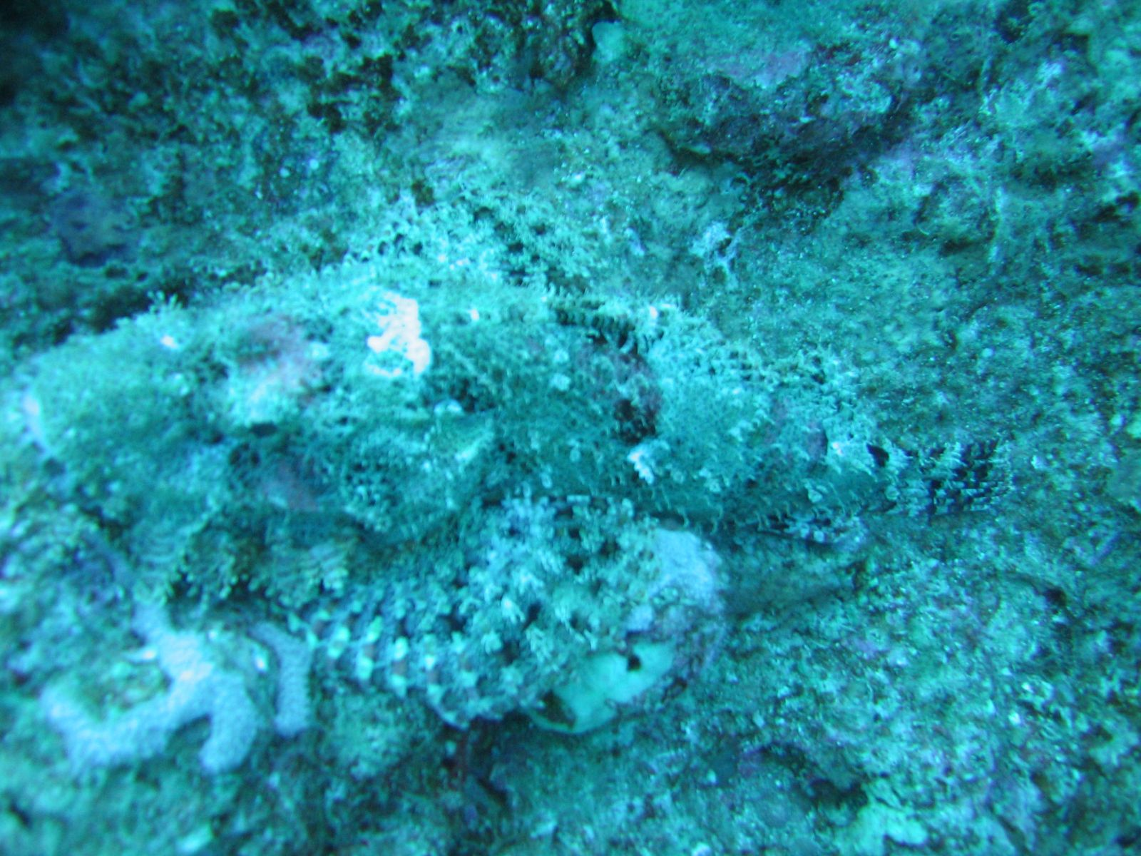 Scorpaena stonefish in Red Sea (without flash) Version with flash